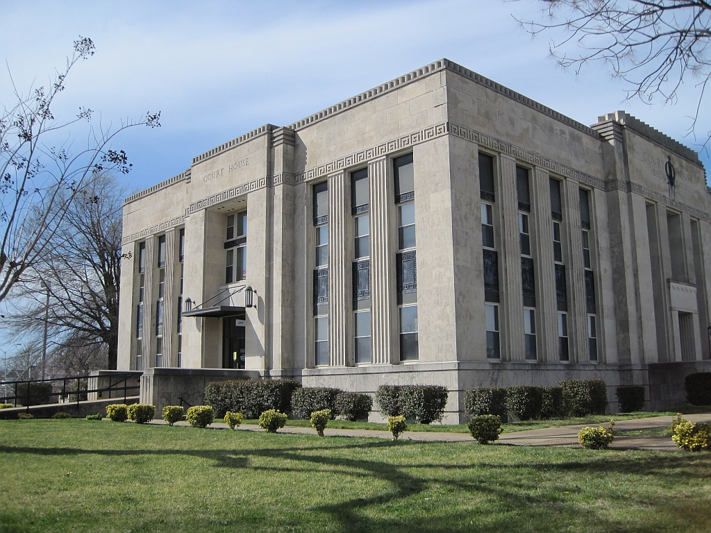 Obion County court house in Union City, Tennessee.